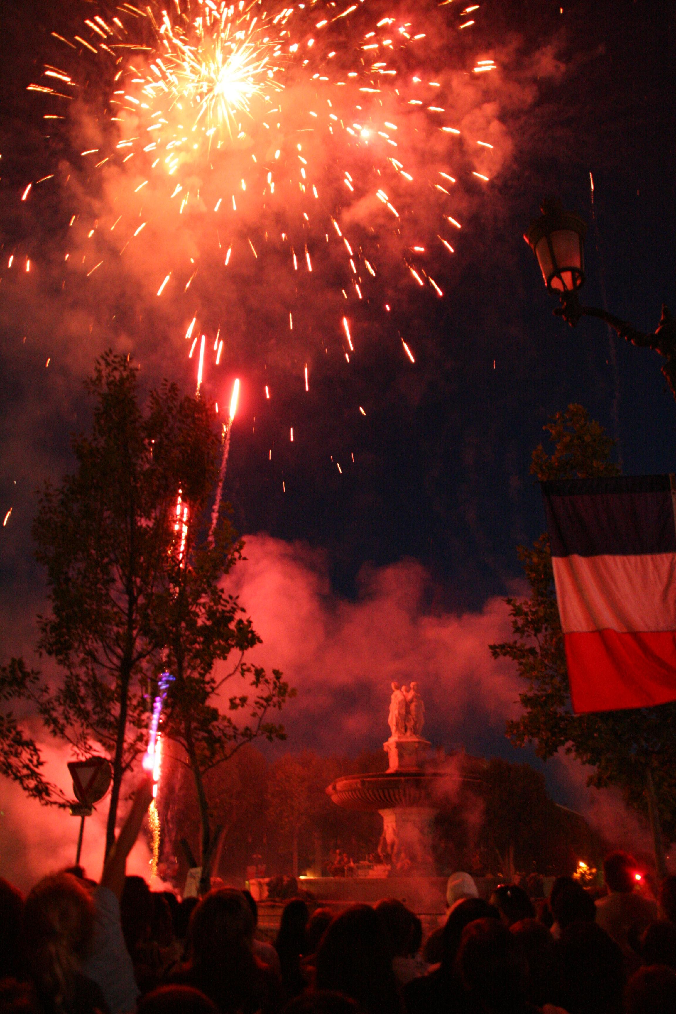 Bastille day, 14 Juillet 2007, Aix en Provence